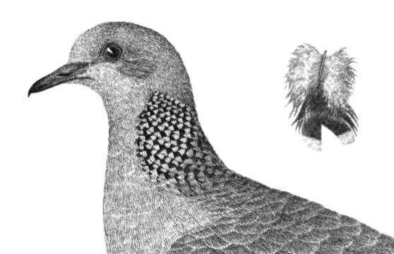 Bifid neck feather of Spilopelia chinensis